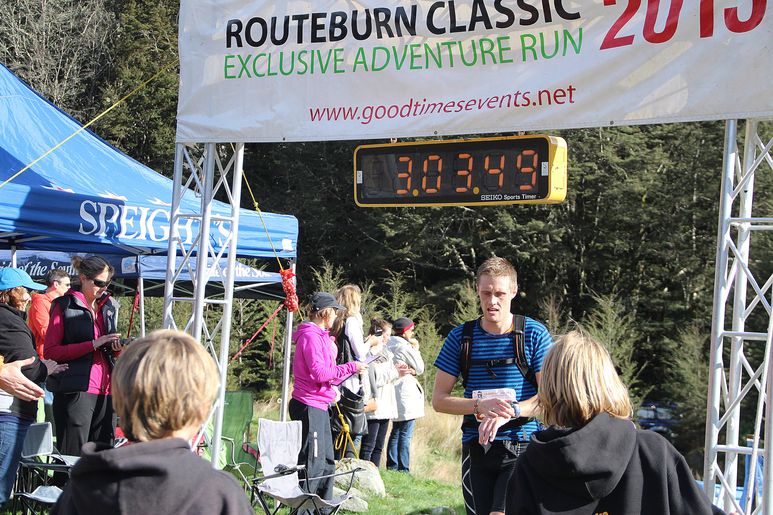 The finish line at the Routeburn Shelter in the Routeburn Classic 2013 mountain running race